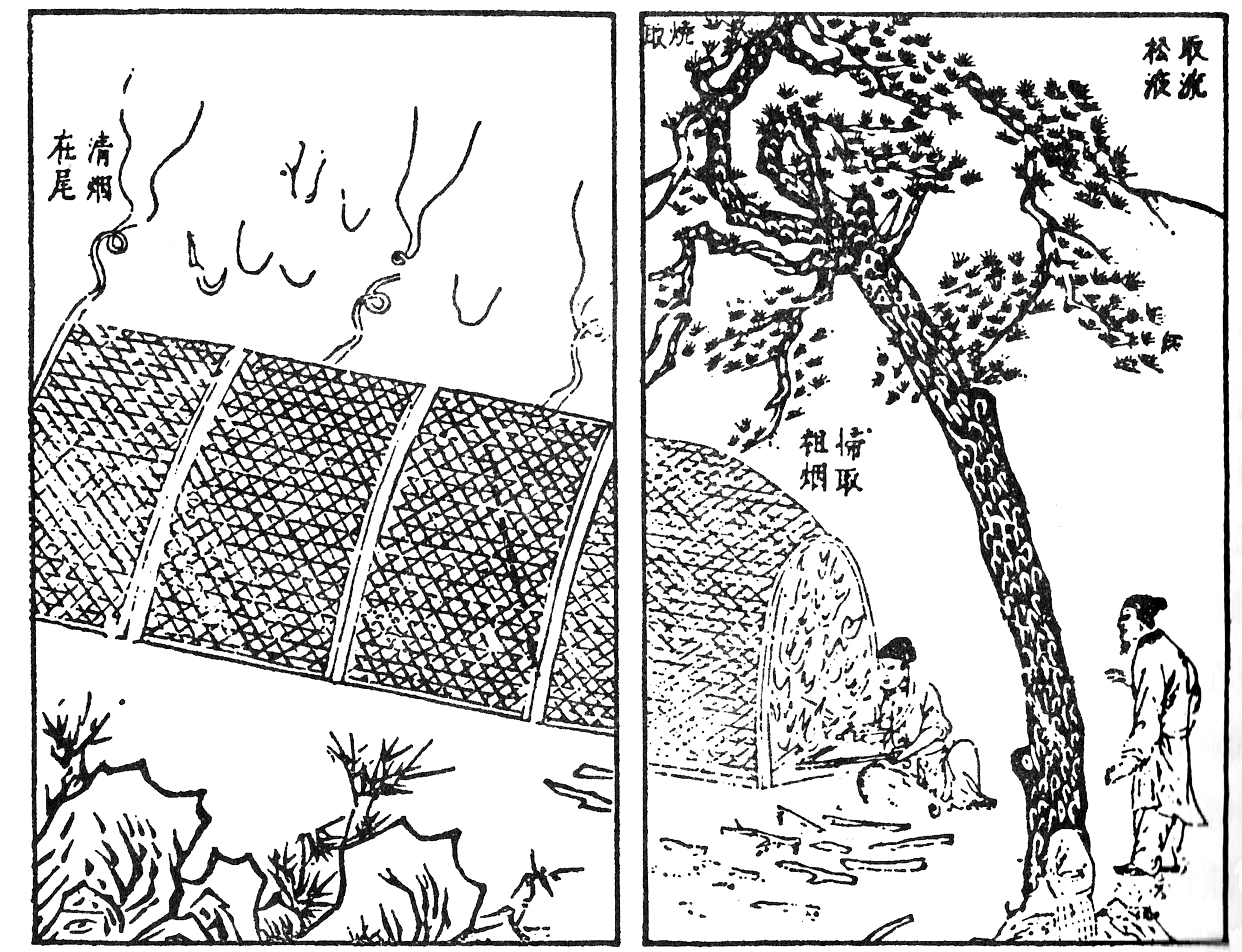 Collecting pine smoke to make Chinese ink